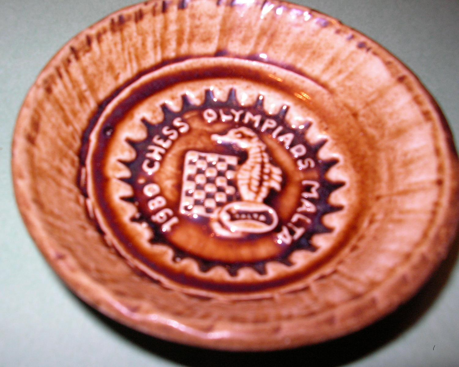 Fire-clay (9 x 2 cm) souvenir of Chess Olympiad in Valletta on Malta, Photographer Gerhard Hund.